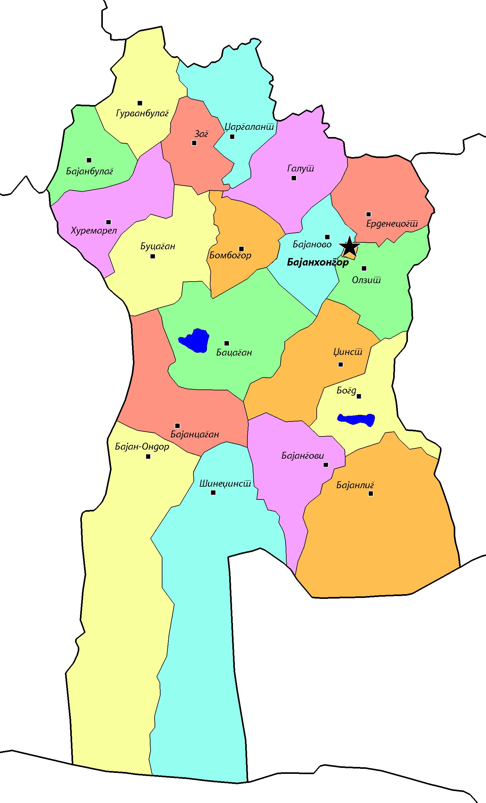 Translated map on Macedonian of the dstricts of the Bayankhongor province in Mongolia.